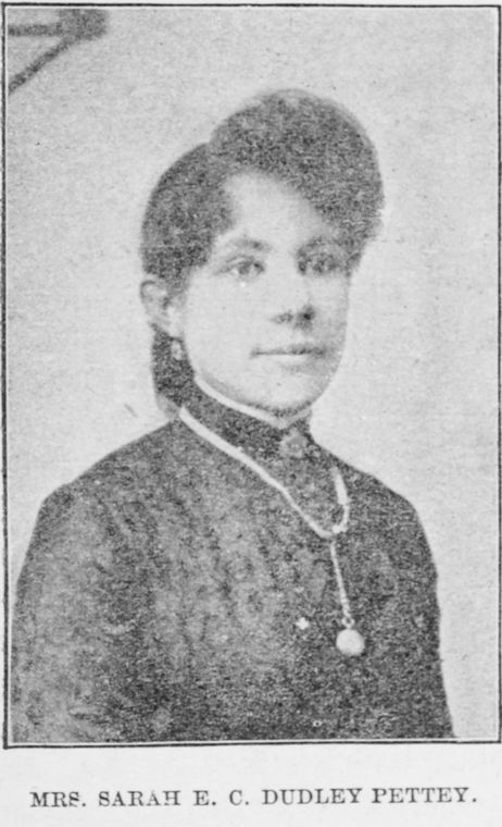 Mrs. Sarah E.C. Dudley Pettey. Christian Temperance Advocate, Musician, Treasurer of Woman's Home and Foreign Missionary Society of A.M. Zion Church in America, Africa and the Isles of the Sea; Tourist, Linguist and Experienced Teacher.